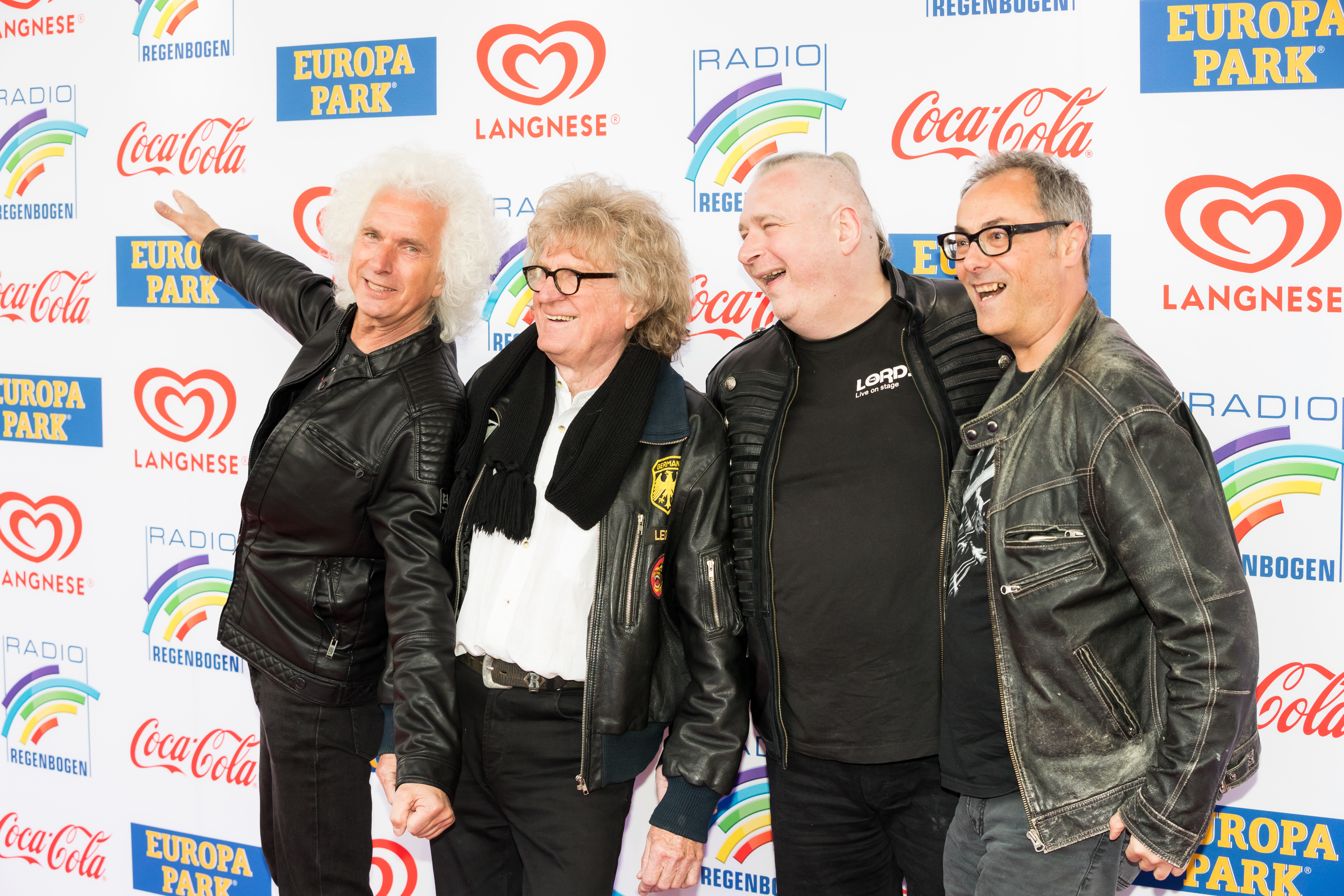 The Lords during Radio Regenbogen Award 2019 at Europapark, Rust, Baden-Württemberg, Germany on 2019-04-12, Photo: Sven Mandel